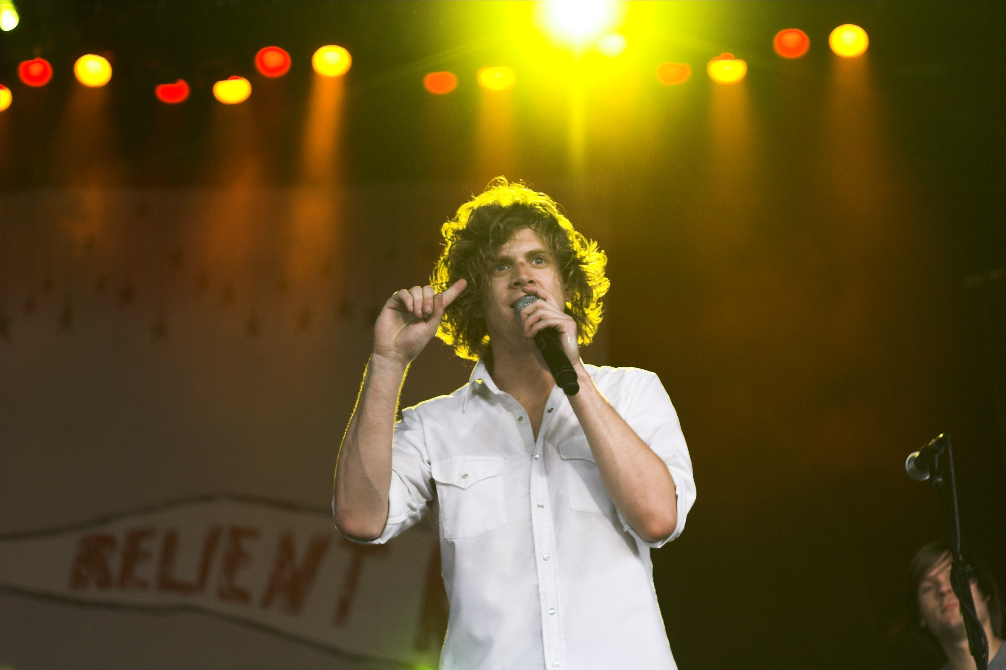 Lead singer and guitarist of Relient K, Matt Thiessen performing at Wonder Jam 2009, at Canada's Wonderland in Vaughan, Ontario, Canada.